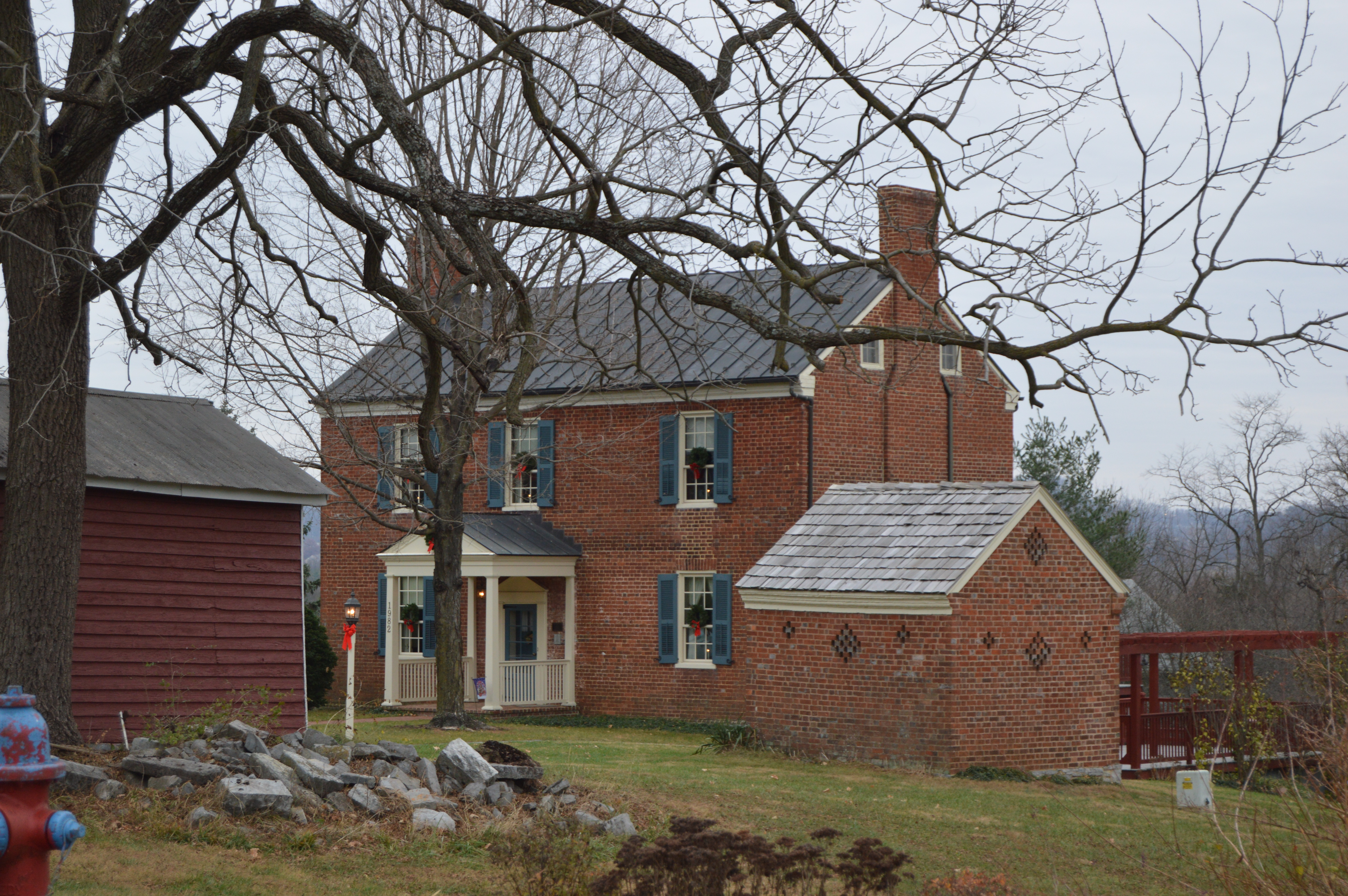 Front and southwestern side of the George Earman House, located on Willow Hill Drive in Harrisonburg, Virginia, United States. Built in 1822, it is listed on the National Register of Historic Places.